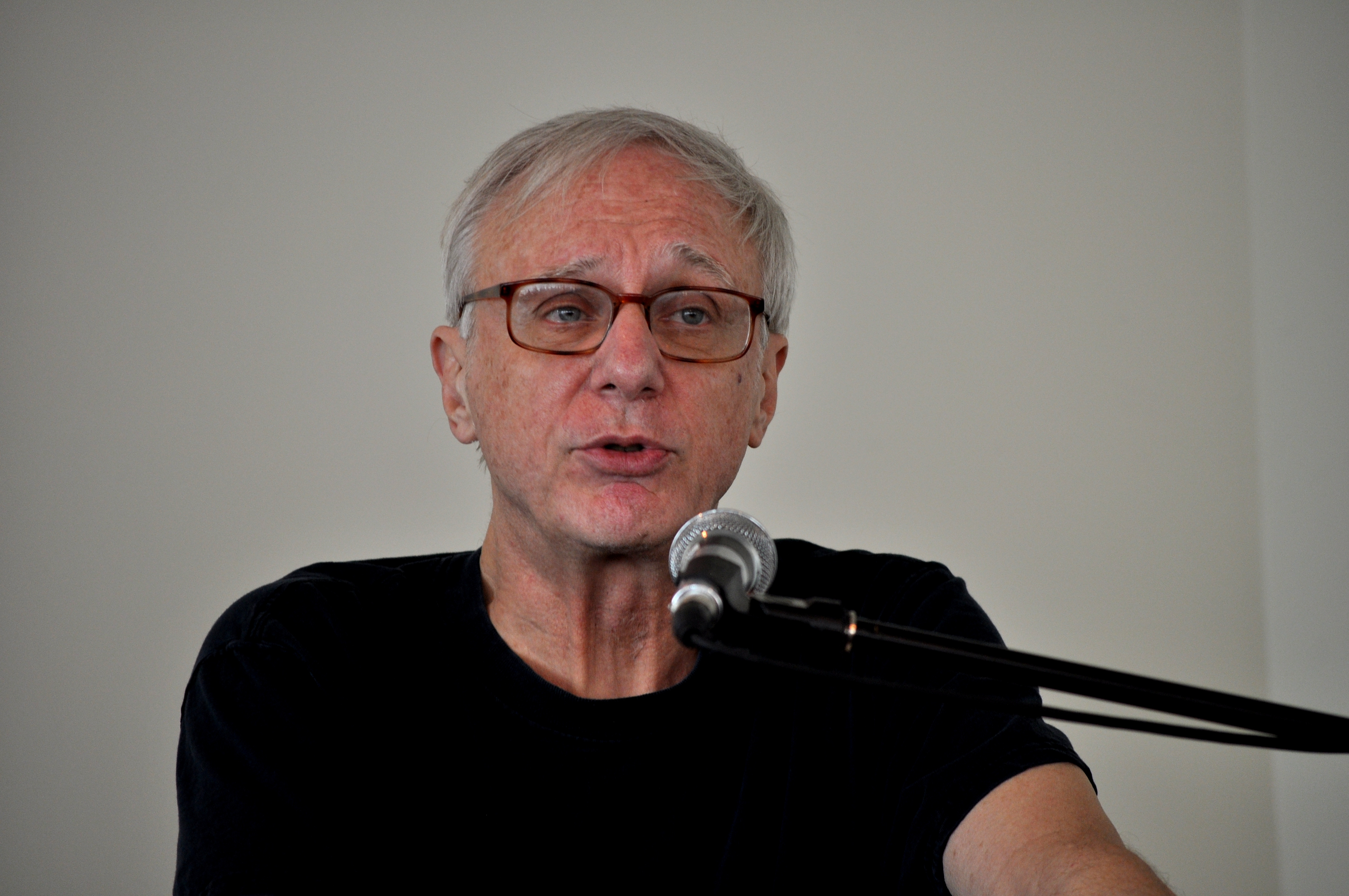 Music critic Robert Christgau speaking at the 2012 Pop Conference, at NYU.